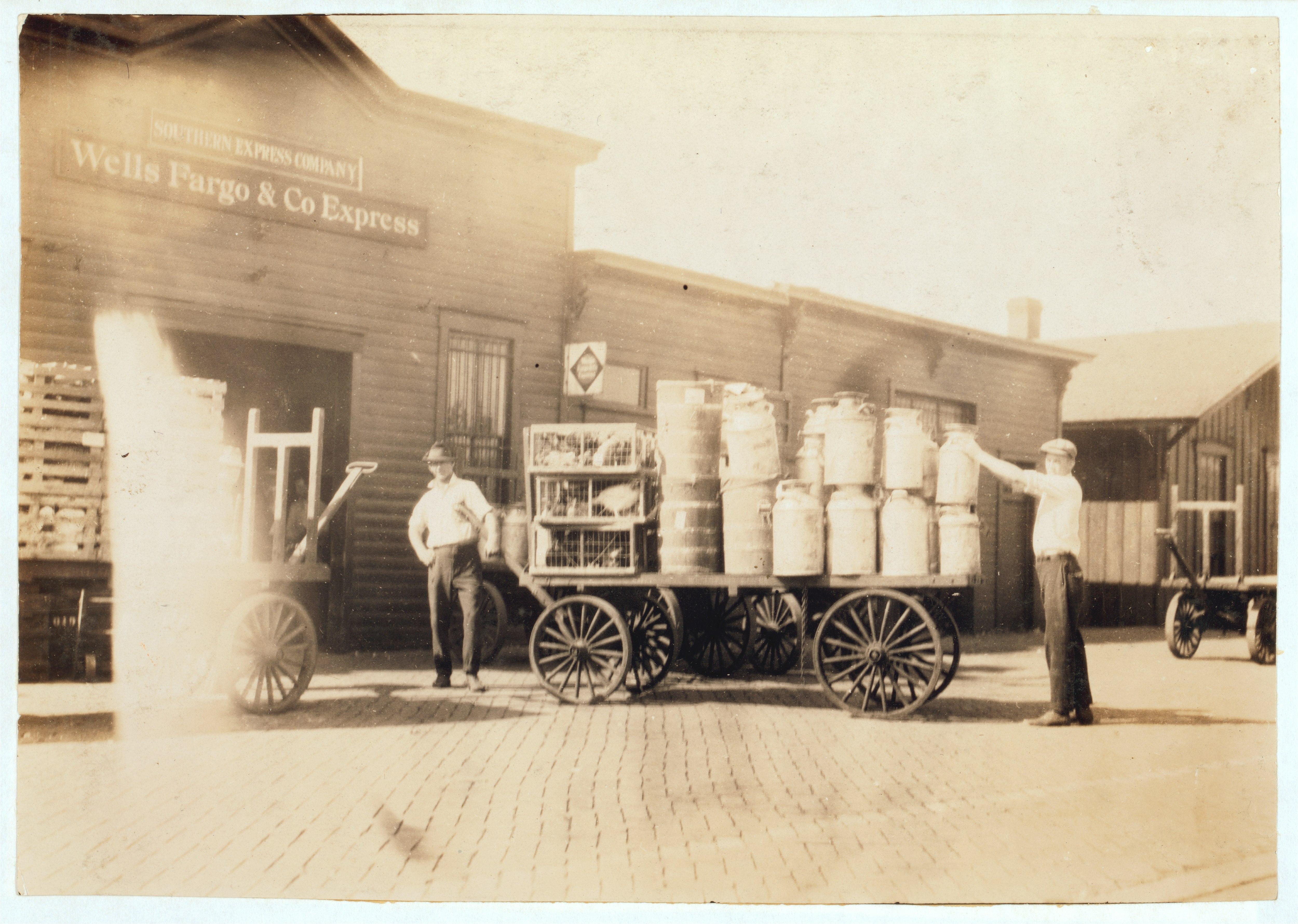 Title: Expressmen. Abstract: Photographs from the records of the National Child Labor Committee (U.S.) Physical description: 1 photographic print. Notes: Men.; Laborers.; Shipping.; Farm produce.